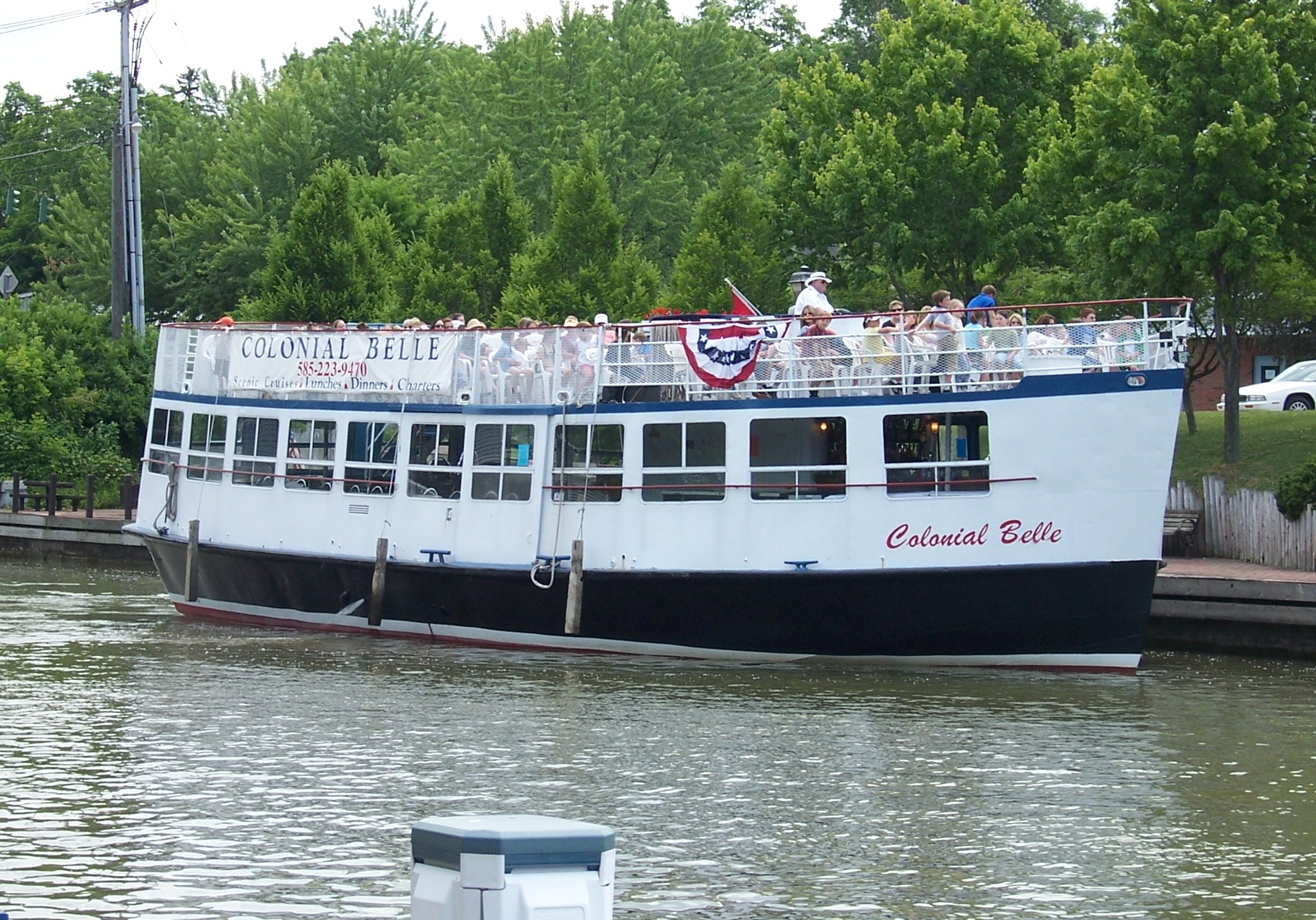 The Colonial Belle, a tour boat operating on the Erie Canal out of Fairport, New York.